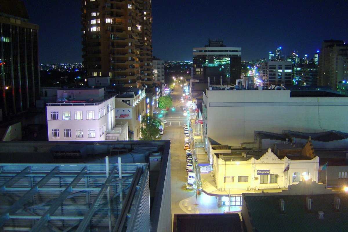 View of Bondi Junction from Westfield Bondi Junction, Bondi Junction, NSW, Australia.